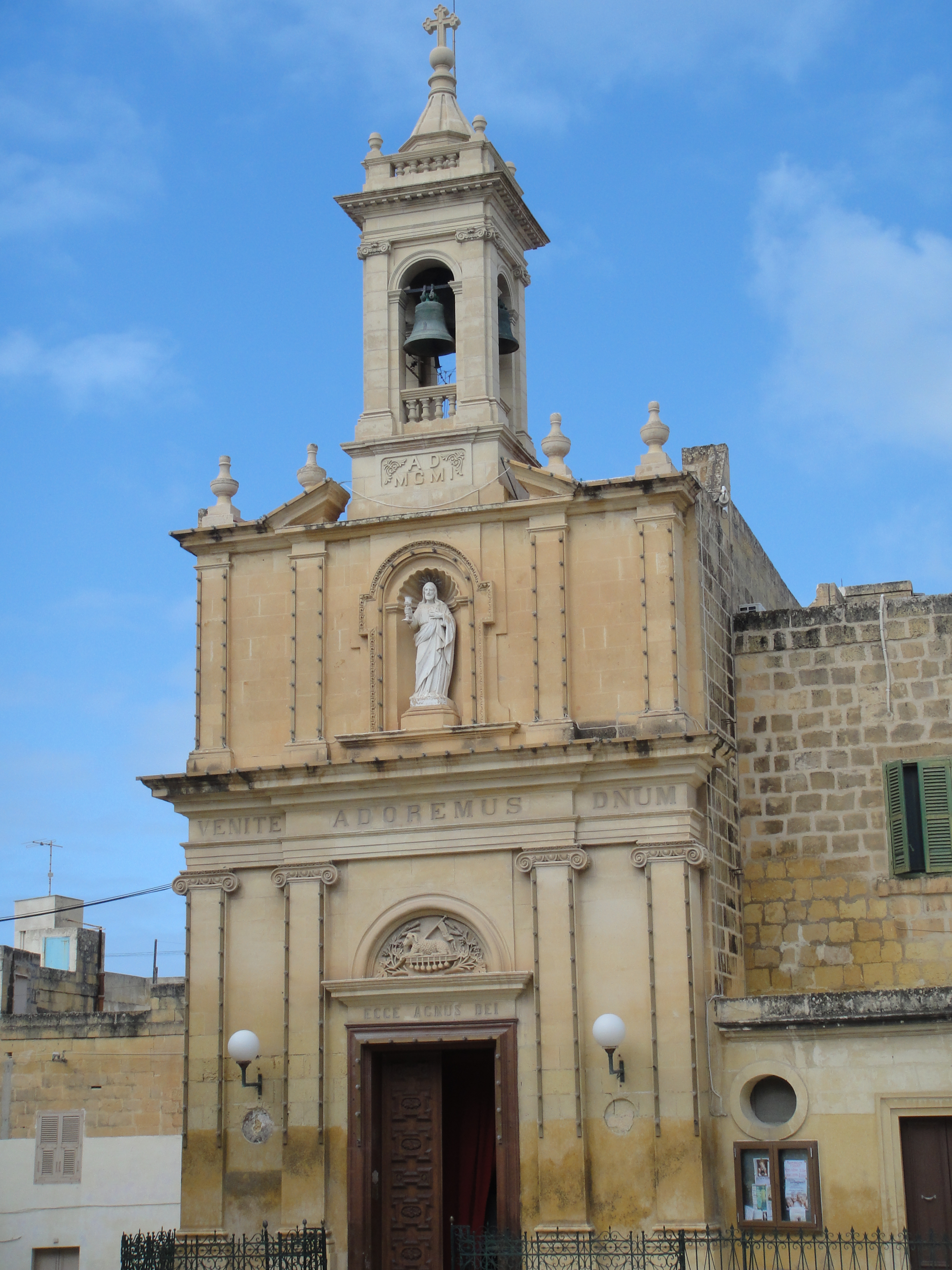 The façade of the church of the Nativity of Our Lady in Victoria Gozo Malta.